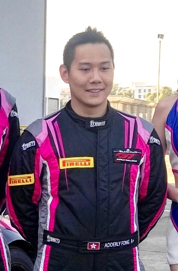 Adderly Fong in December 2019 中文（香港）: 2019年12月的方駿宇